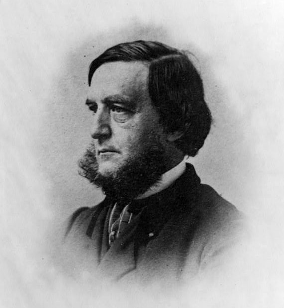 Charles Coffin Jewett, Librarian and Assistant Secretary of the Smithsonian Institution, head-and-shoulders portrait, facing left.